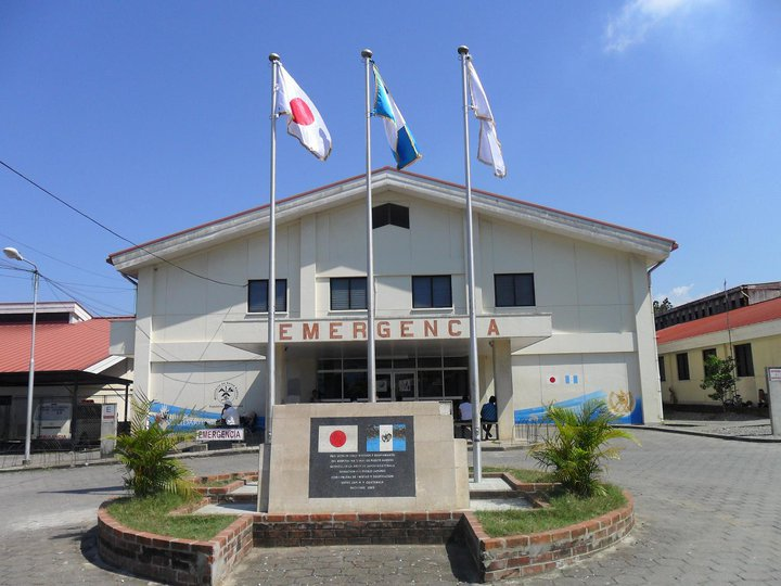 Puerto Barrios Hospital